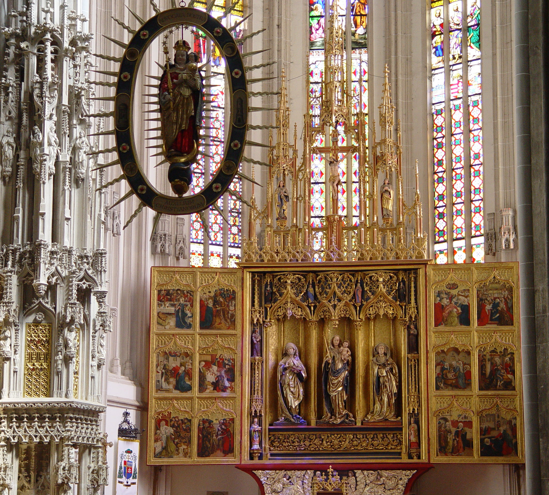 Kosice - St. Elisabeth Cathedral - Altar